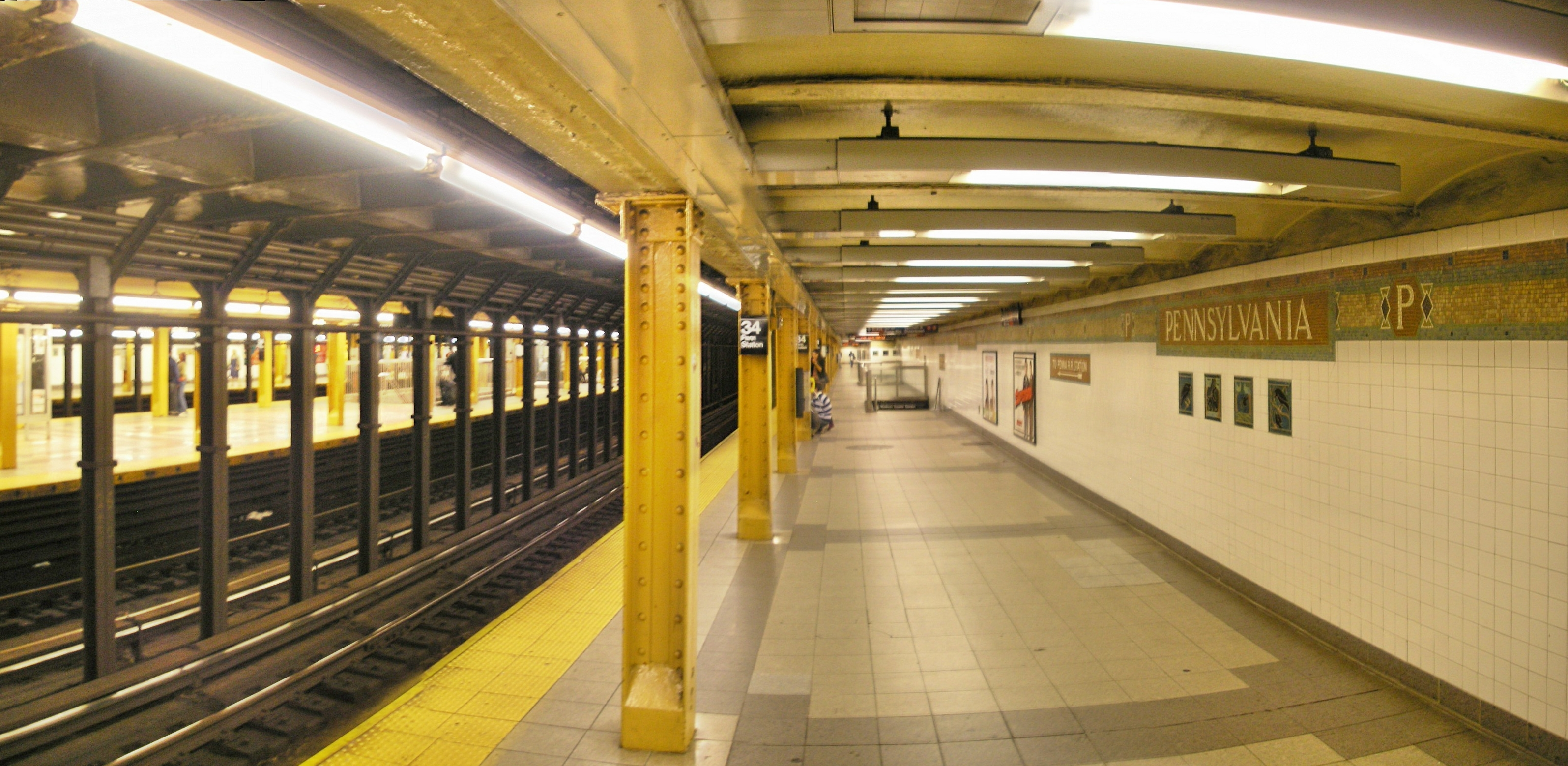 View of the Penn Station subway station in New York City. This panoramic image was created with Autostitch (stitched images may differ from reality).